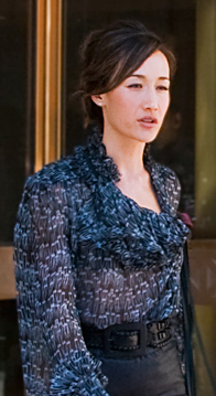 Maggie Q at the 2009 Toronto International Film Festival.